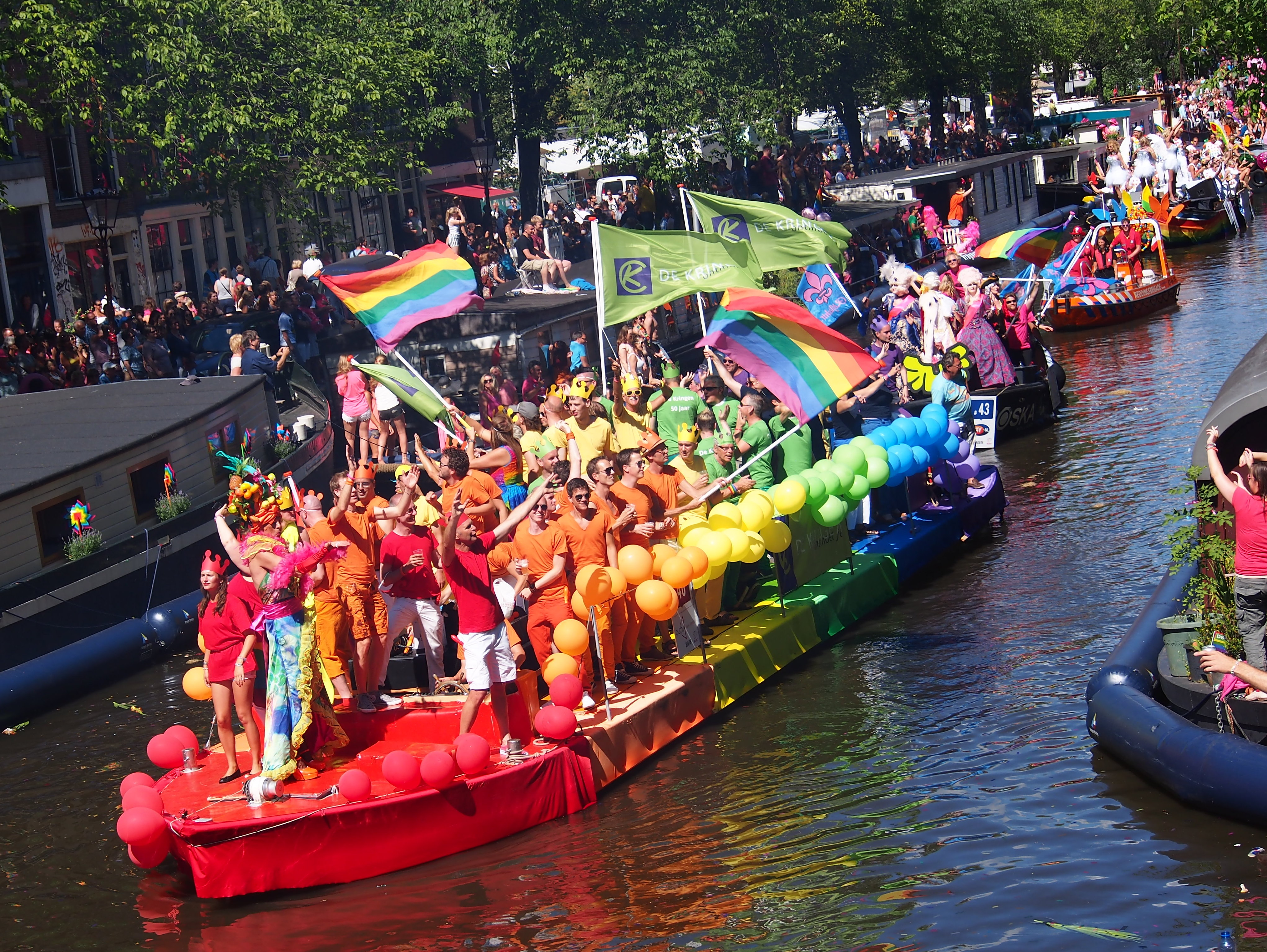 Photographed at the Prinsengracht Amsterdam, the Netherlands.